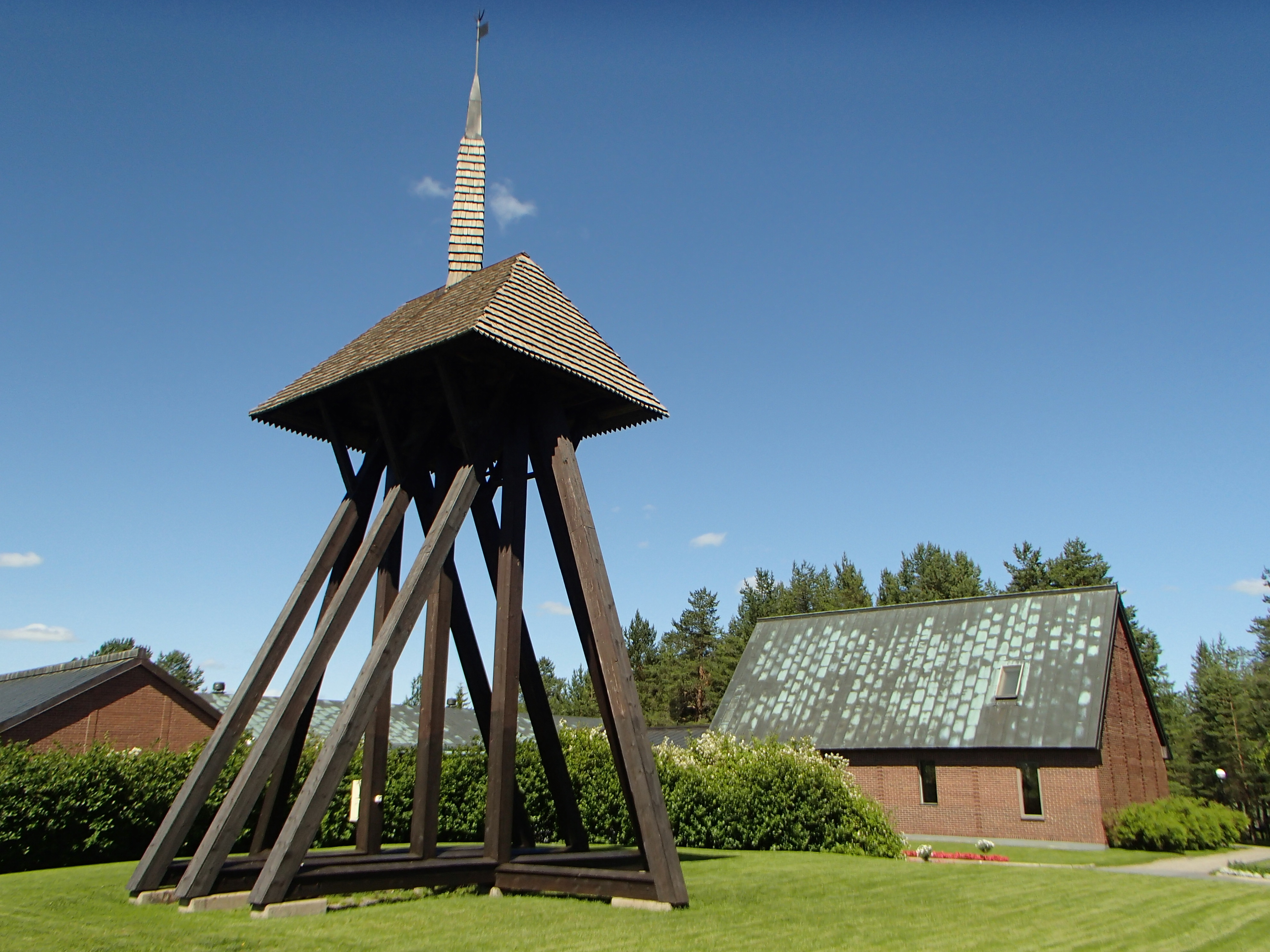 The belfry and church building of "Obbola kyrka" at Södra obbolavägen 34, Obbola, Umeå Municipality, viewed from south